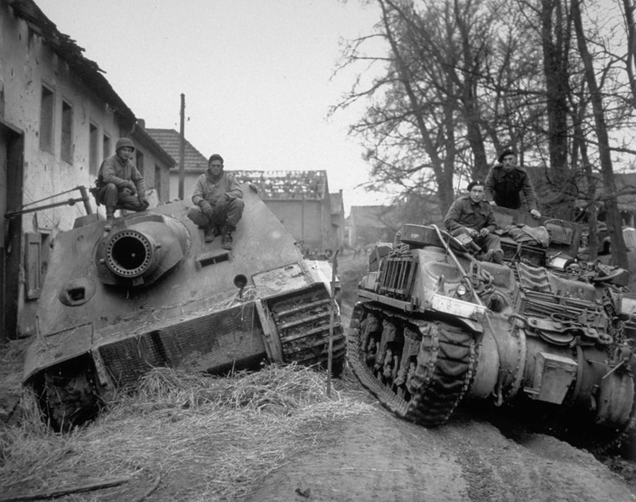 Sturmtiger, abandoned after a breakdown and captured by US troops. On the right is a British ARV on M4 chassis